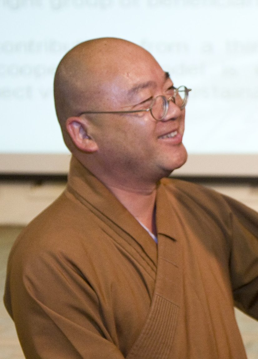 西來寺住持慧濟法師